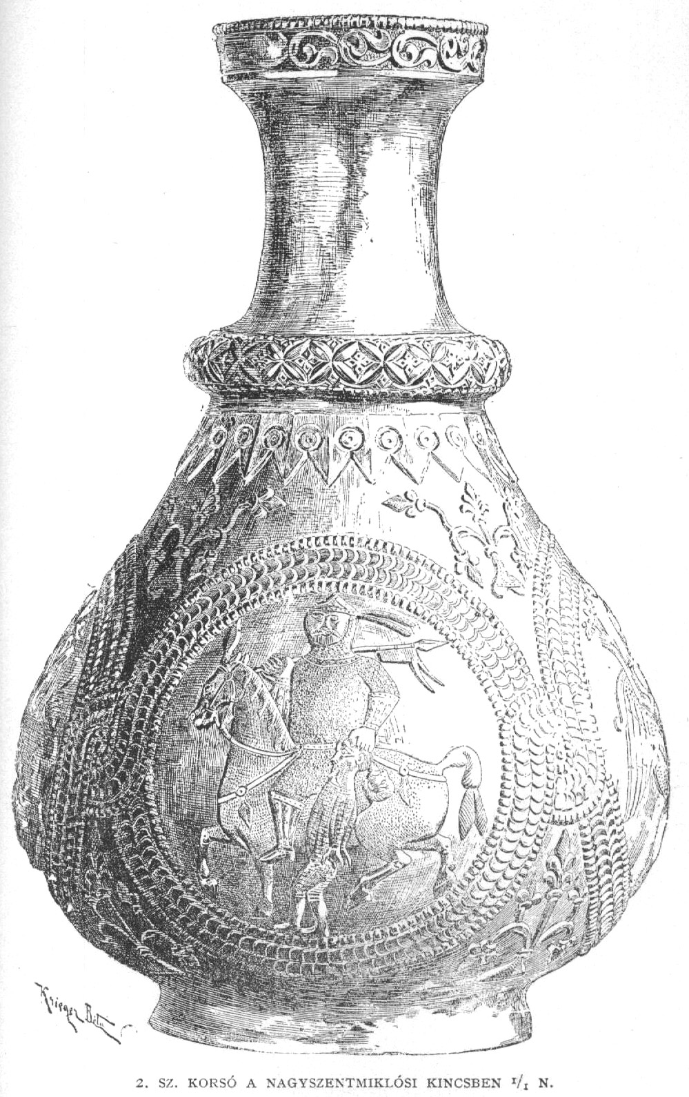 Ewer (jug) No. 2 from Treasure of Nagyszentmiklós